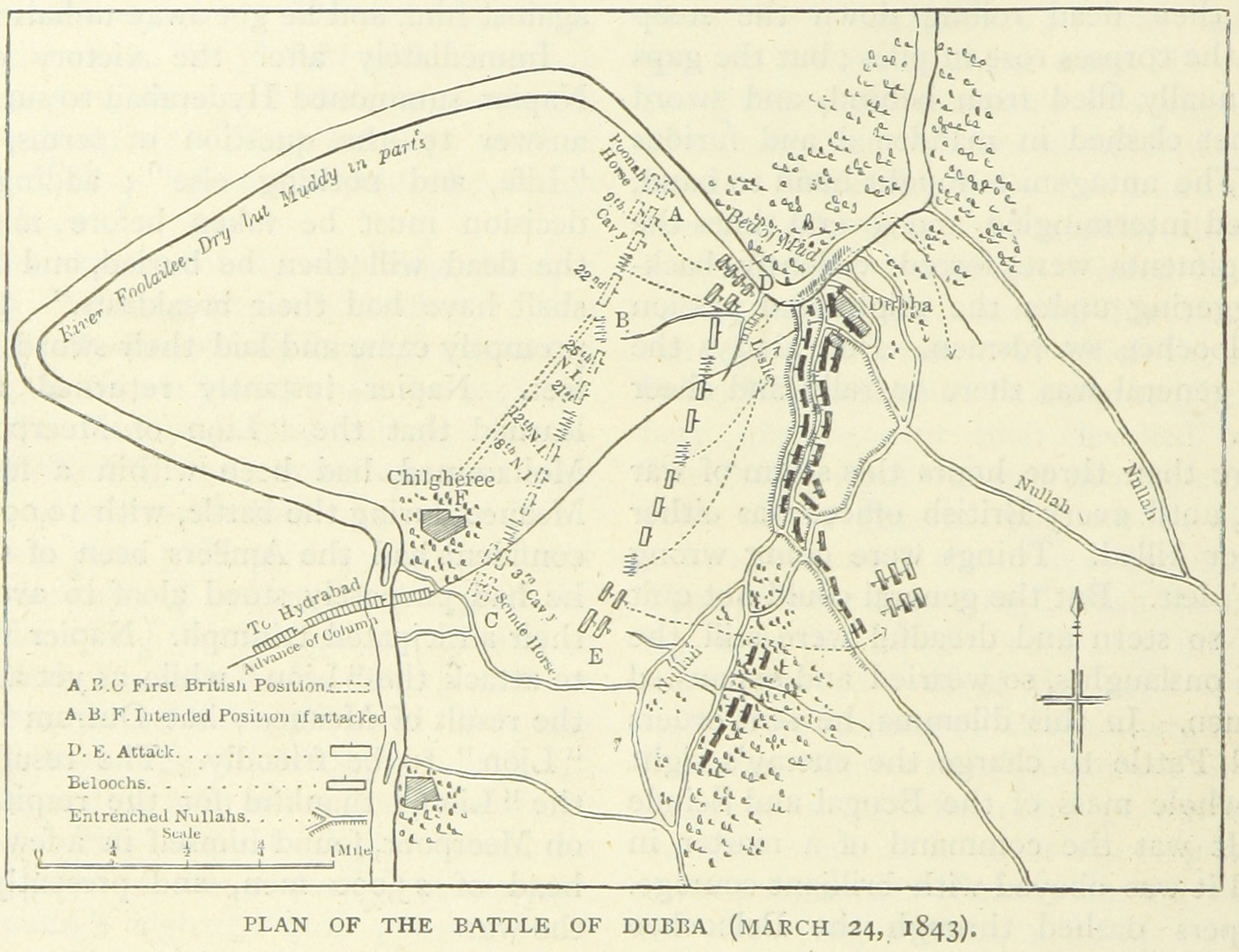 A map of the 1843 Battle of Hyderabad, also called the Battle of Dubba.